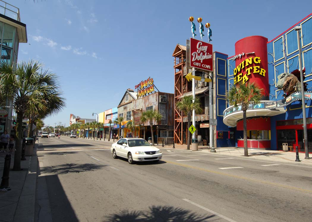 Myrtle Beach, North Ocean Boulevard, South Carolina, USA. Residents and tourists enjoy a day at the beach. Myrtle Beach is 60 miles of soft, sandy beach, entertainment and attractions for everyone, endless shopping, exquisite dining, thrilling water sports and more.